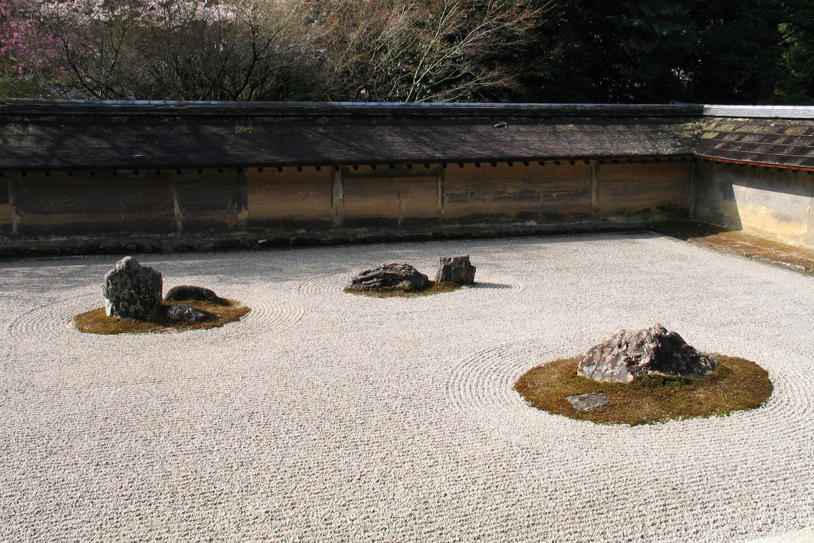 Dry Garden in Ryoanji (Kyoto, Japan)